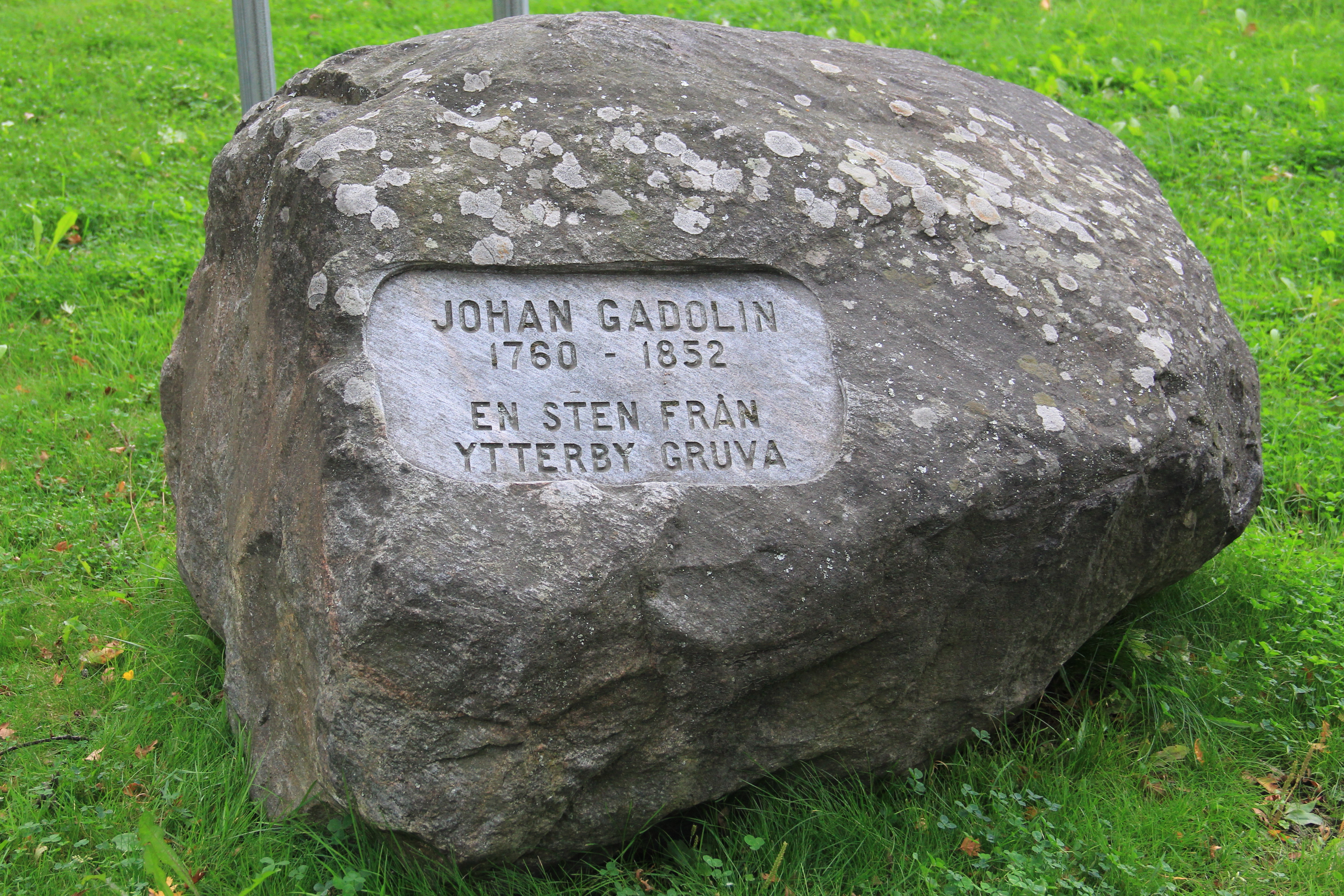 Johan Gadolin memorial stone, Mynämäki, Finland. - Johan Gadolin (1760-1852) was a finnish chemist, who lived in Sunila manor in Mynämäki the last years of his life. The stone of this memorial is from Ytterby mine, Resarö, Waxholm, Sweden.